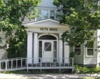 Photograph of the front entrance of the former Halifax Protestant Children's Orphanage, as it stands today as a community centre